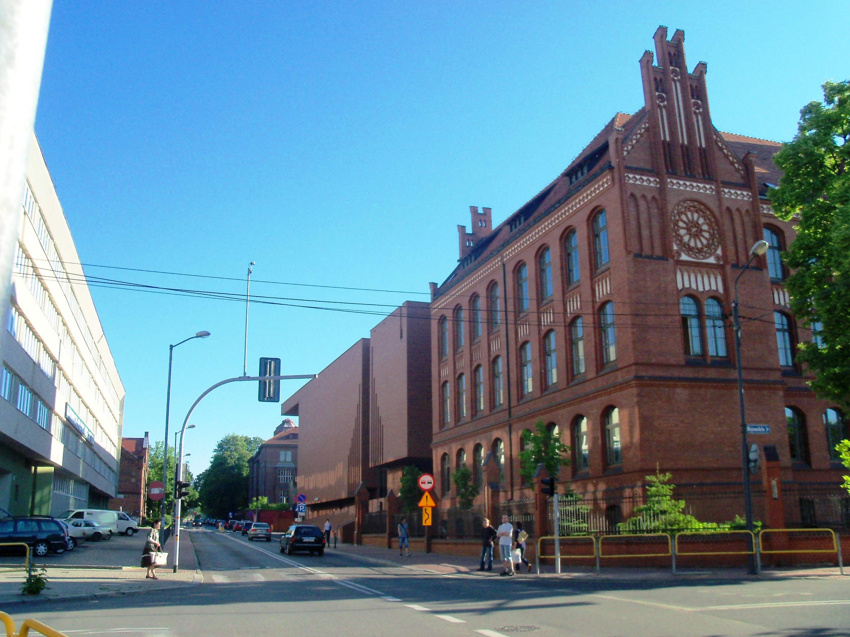 Damrota Street in Katowice (Poland)